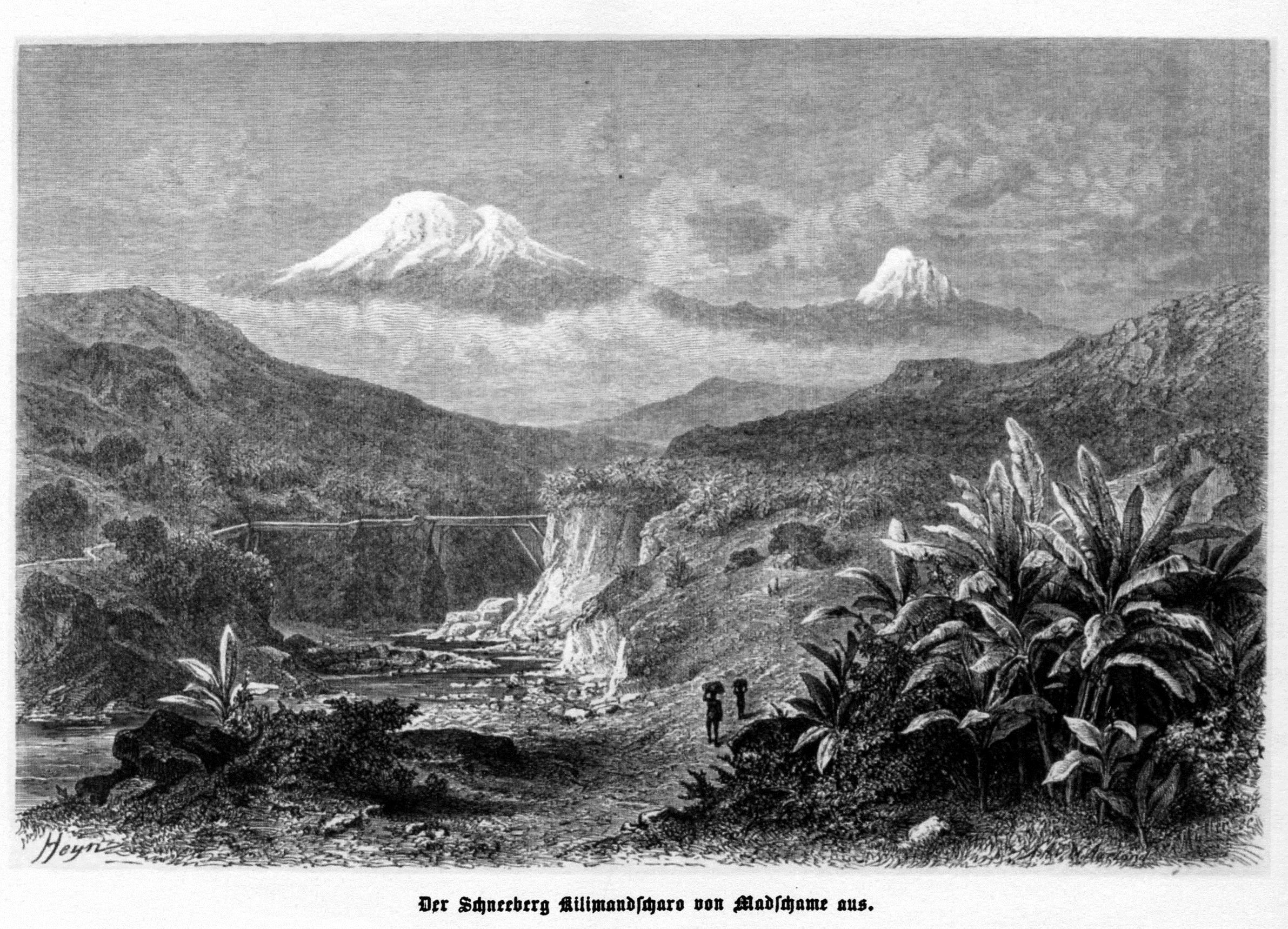 Kilimandscharo, aus Reisen in Ost-Afrika in den Jahren 1859 bis 1865, Carl Claus von der Decken, bearbeitet von Otto Kersten